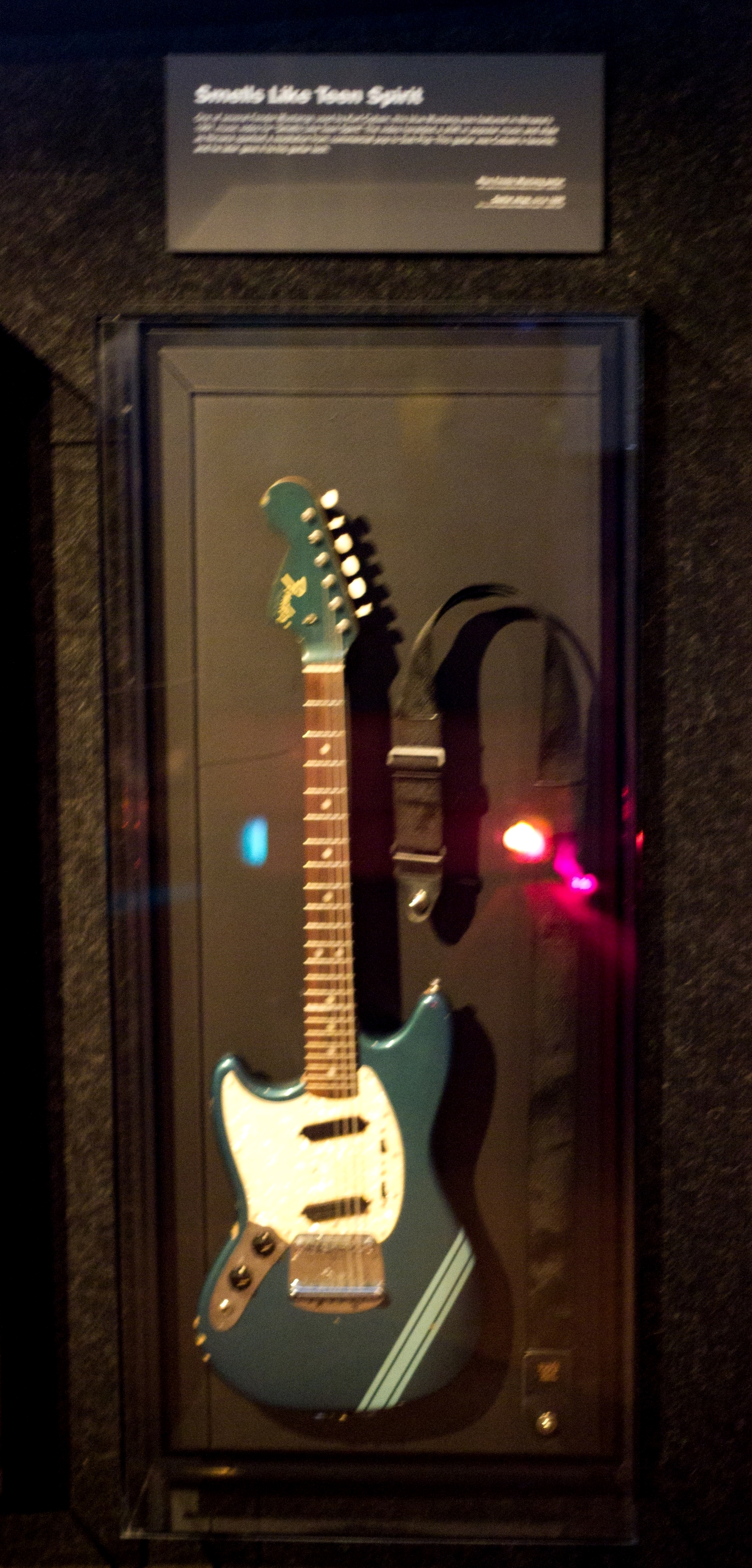 Guitar used by Nirvana and Kurt Cobain